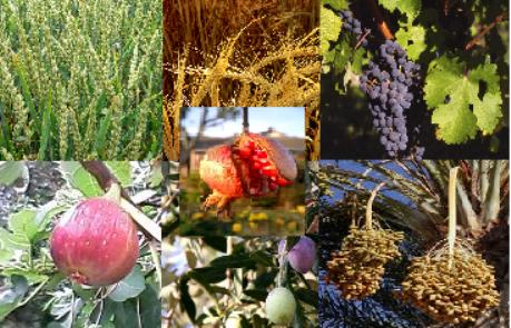 The seven Species of the Land of Israel are listed in the biblical verse Deuteronomy 8:8 : a land with wheat and barley, vines and fig trees, pomegranates, olive oil and [date] honey